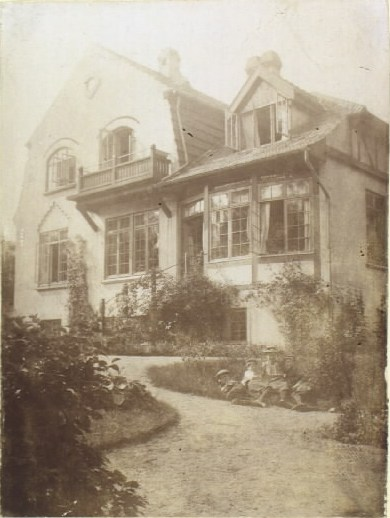 Villa, Rosenvængets Hovedvej 18A from 1898-99, designed by Caspar Leuning Borch. Later demolished.